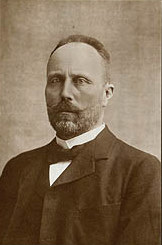 Georg Frederik Ludvig Sarauw (1862-1928), Danish archaeologist